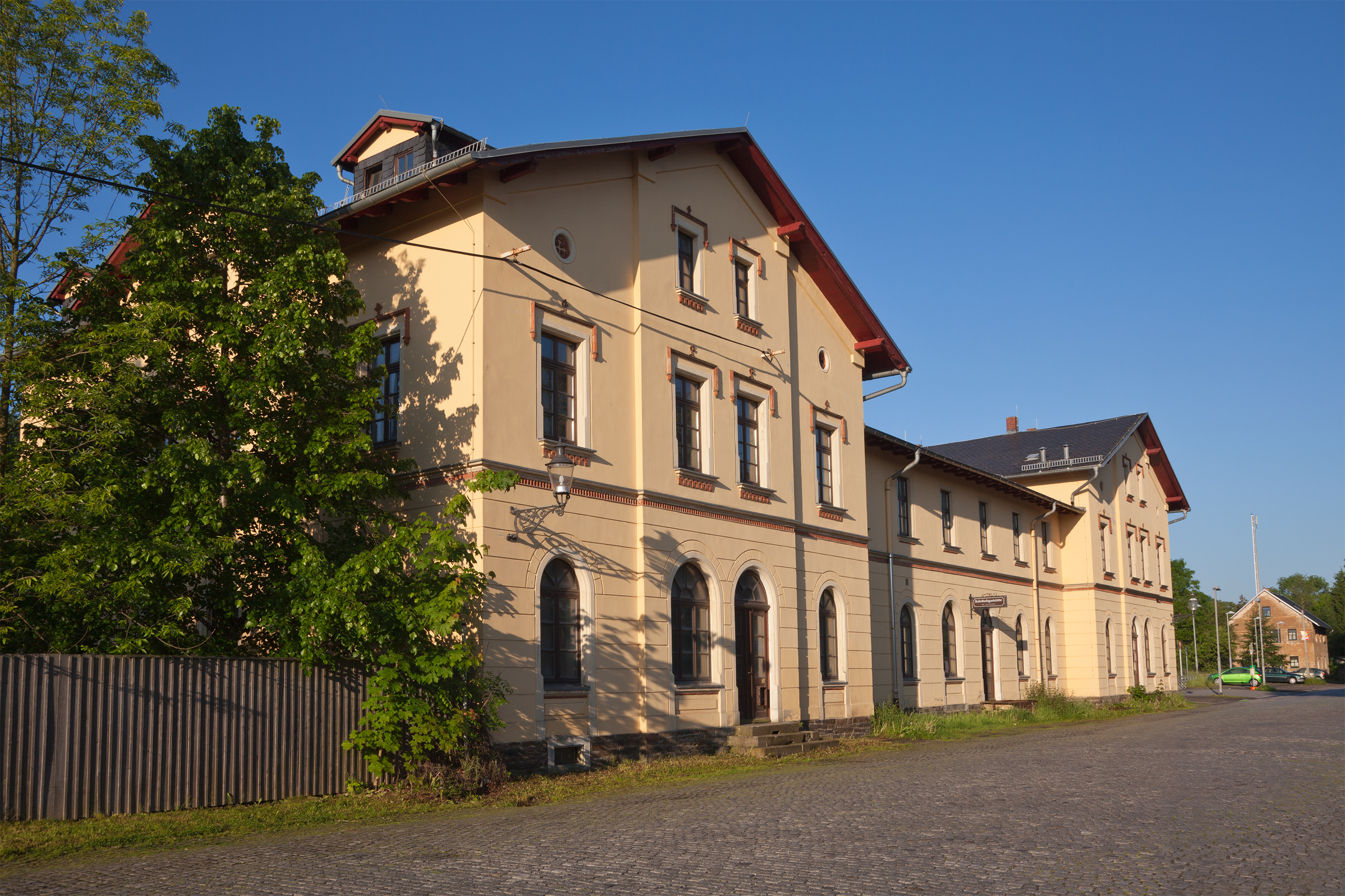 Oederan, train station